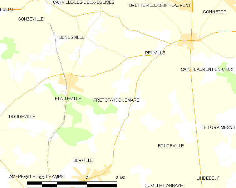 Map of French municipality Prétot-Vicquemare